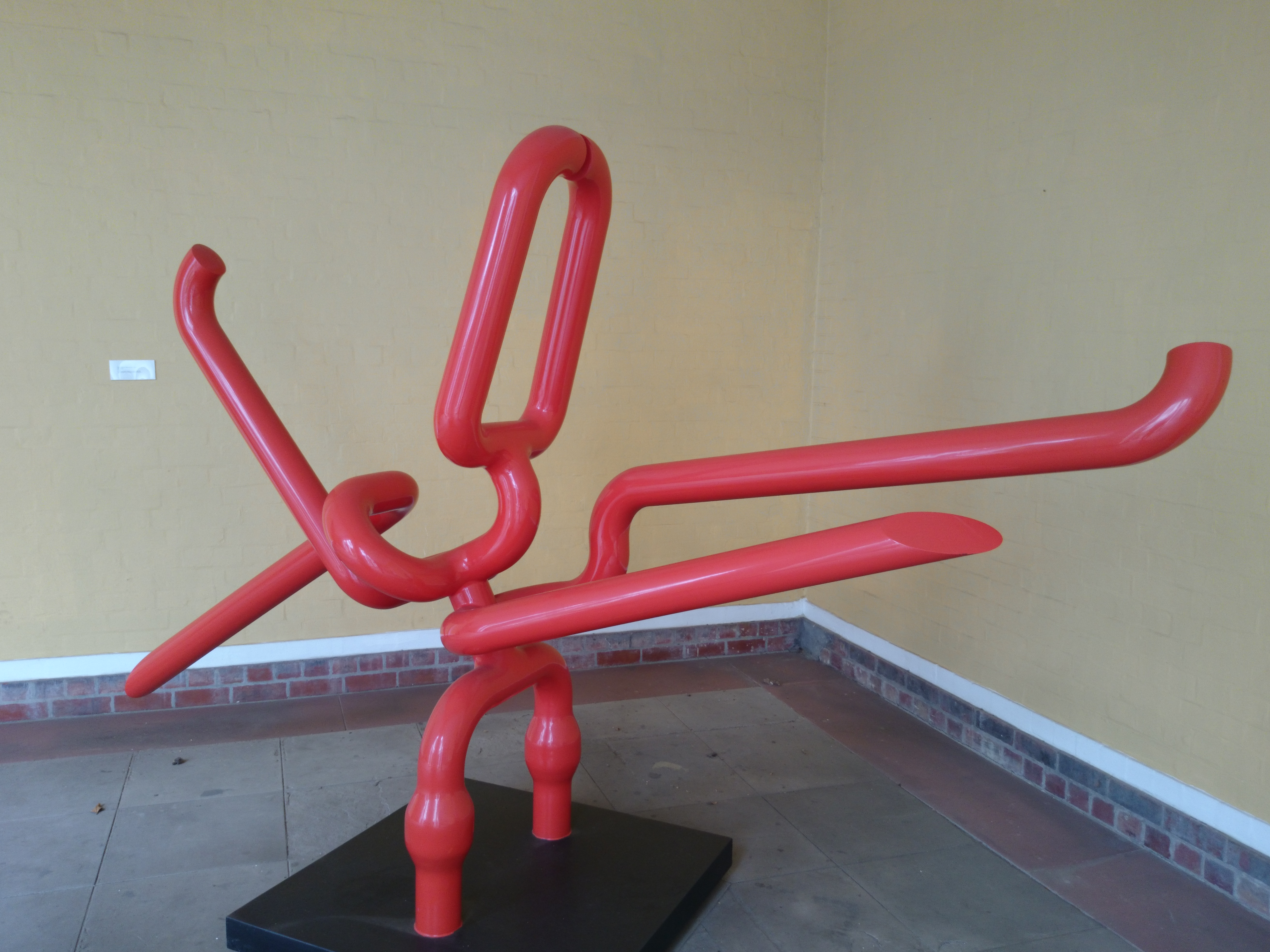 Edoardo Villa (1915-2011) 1980, bent steel tubing, welded, on square steel base. Iziko South African National Gallery Permanent Collection